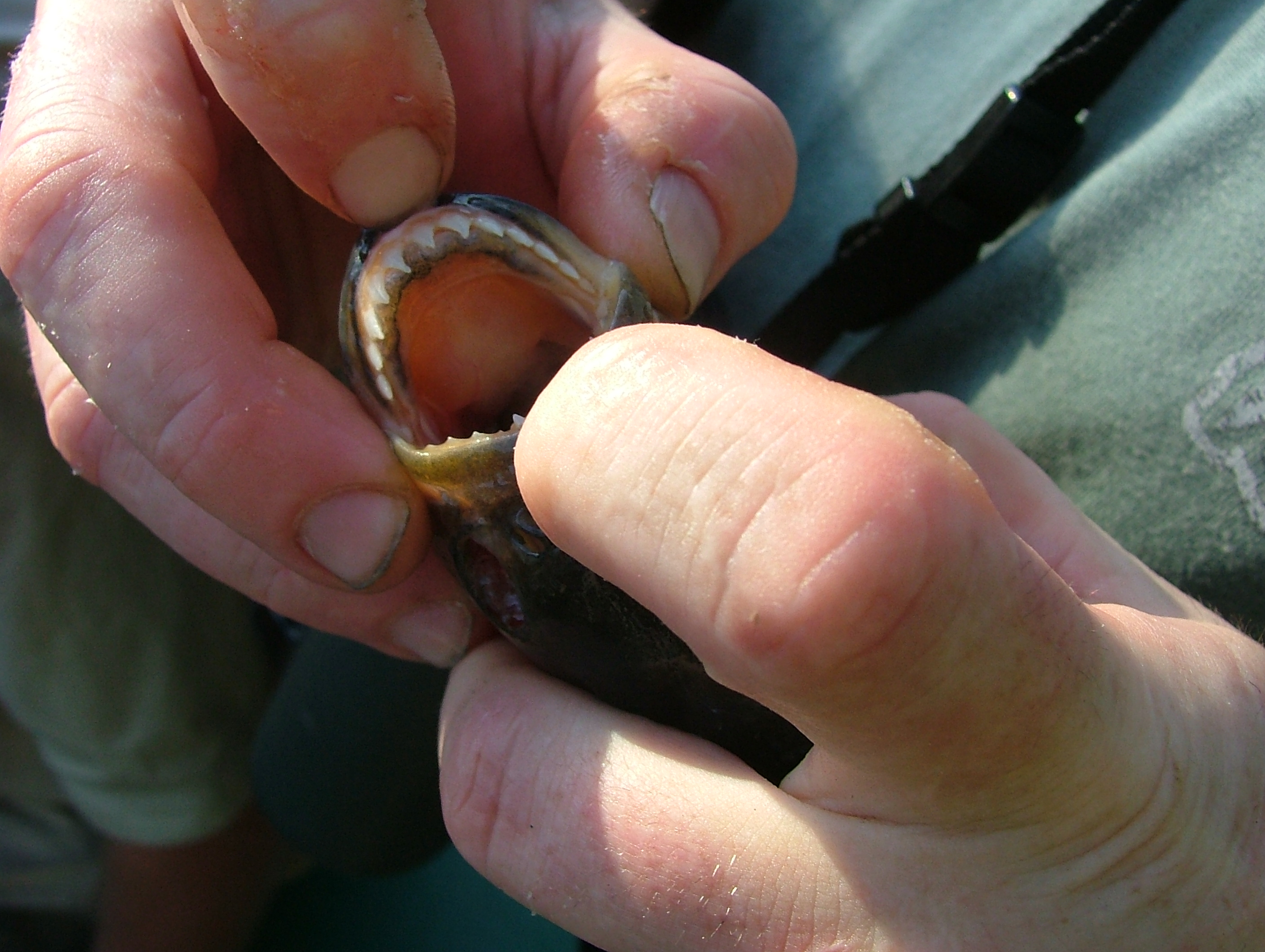 (Original text: Piranha, Venezuela)